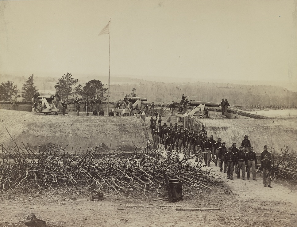 Fort Slemmer Co. and 2d Pennsylvania Artillery